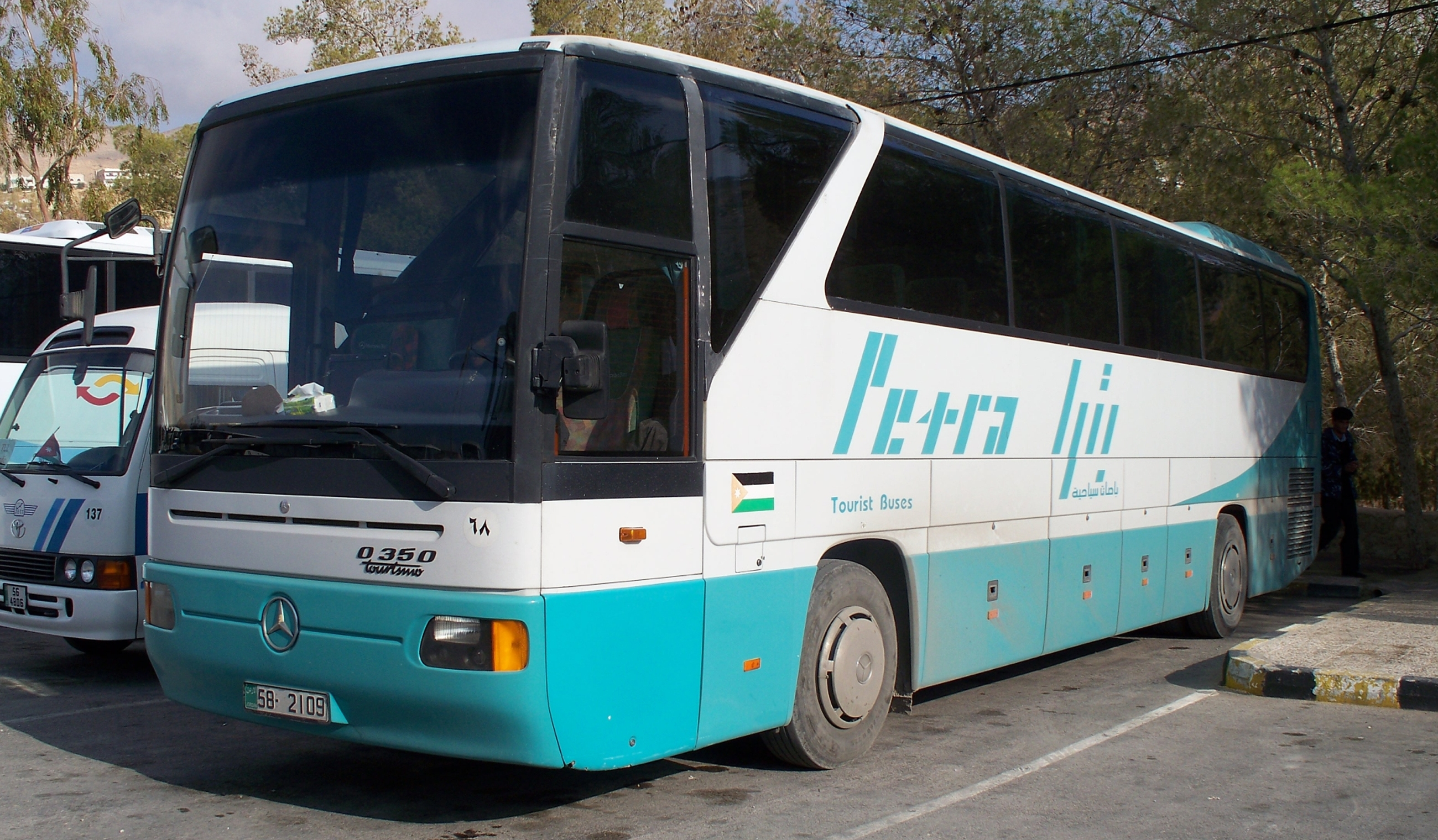 Mercedes-Benz O 350 Tourismo coach (58-2109) in Petra, Jordan. Petra Tourist Buses operator.